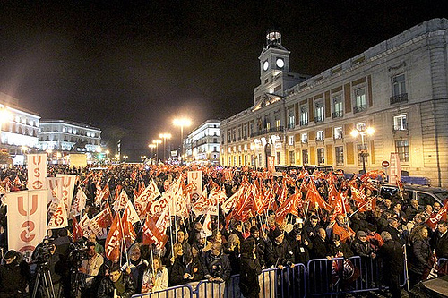 on.fb.me/W7E2Gy